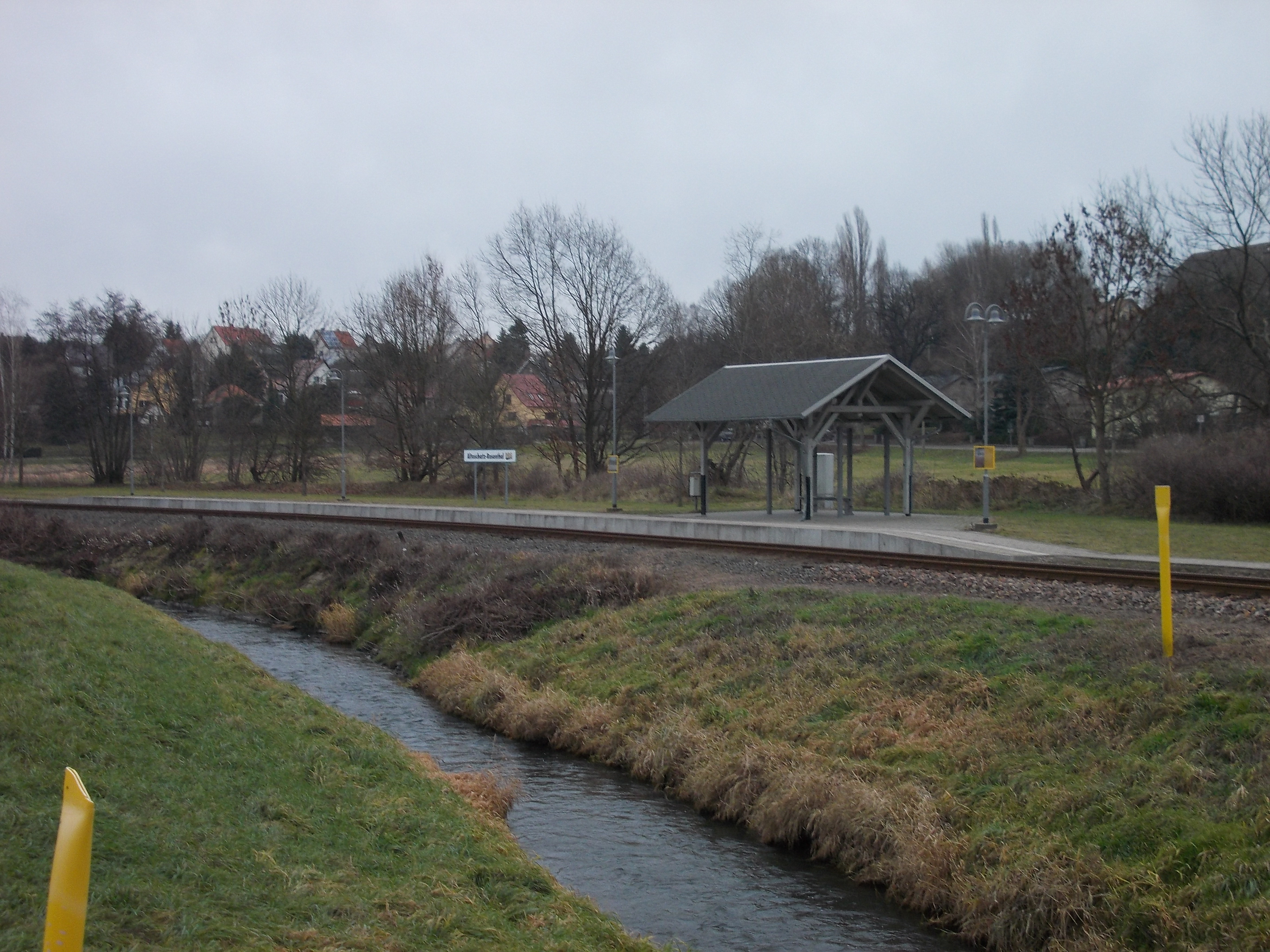 Döllnitz river and Altoschatz-Rosenthal train station (Oschatz, Nordsachsen district, Saxony)